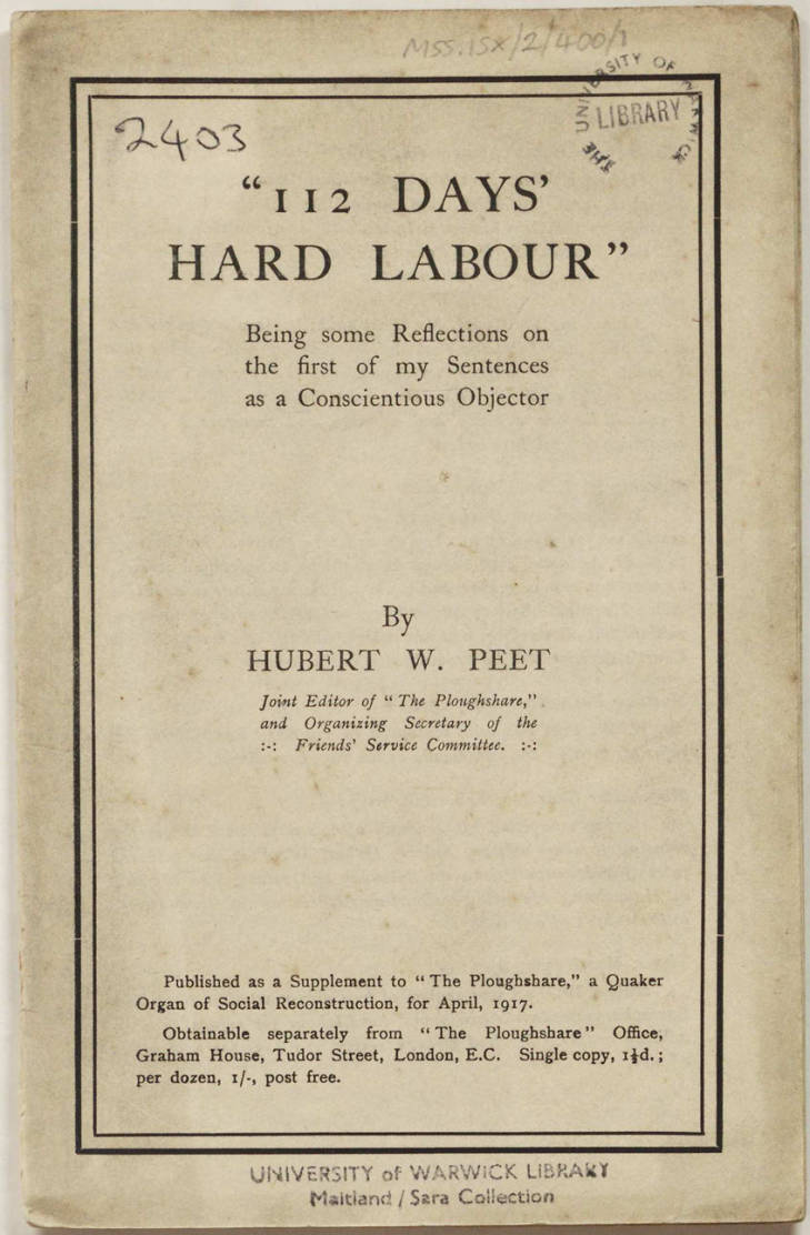 Cover of 112 Days' Hard Labour by Hubert W. Peet. See [1]. Overstampped: "UNIVERSITY of WARWICK LIBRARY Maitiand / Sara Collection" "112 DAYS' HARD LABOUR" Being some Reflections on the first of my Sentences as a Conscientious Objector By HUBERT W. PEET Joint Editor of "The Ploughshare," and Organizing Secretary of the Friends' Service Committee. Published as a Supplement to "The Ploughshare," a Quaker Organ of Social Reconstruction, for April, 1917. Obtainable separately from " The Ploughshare" Office, Graham House, Tudor Street, London, E.C. Single copy, 1½d.; per dozen, 1/, post free.